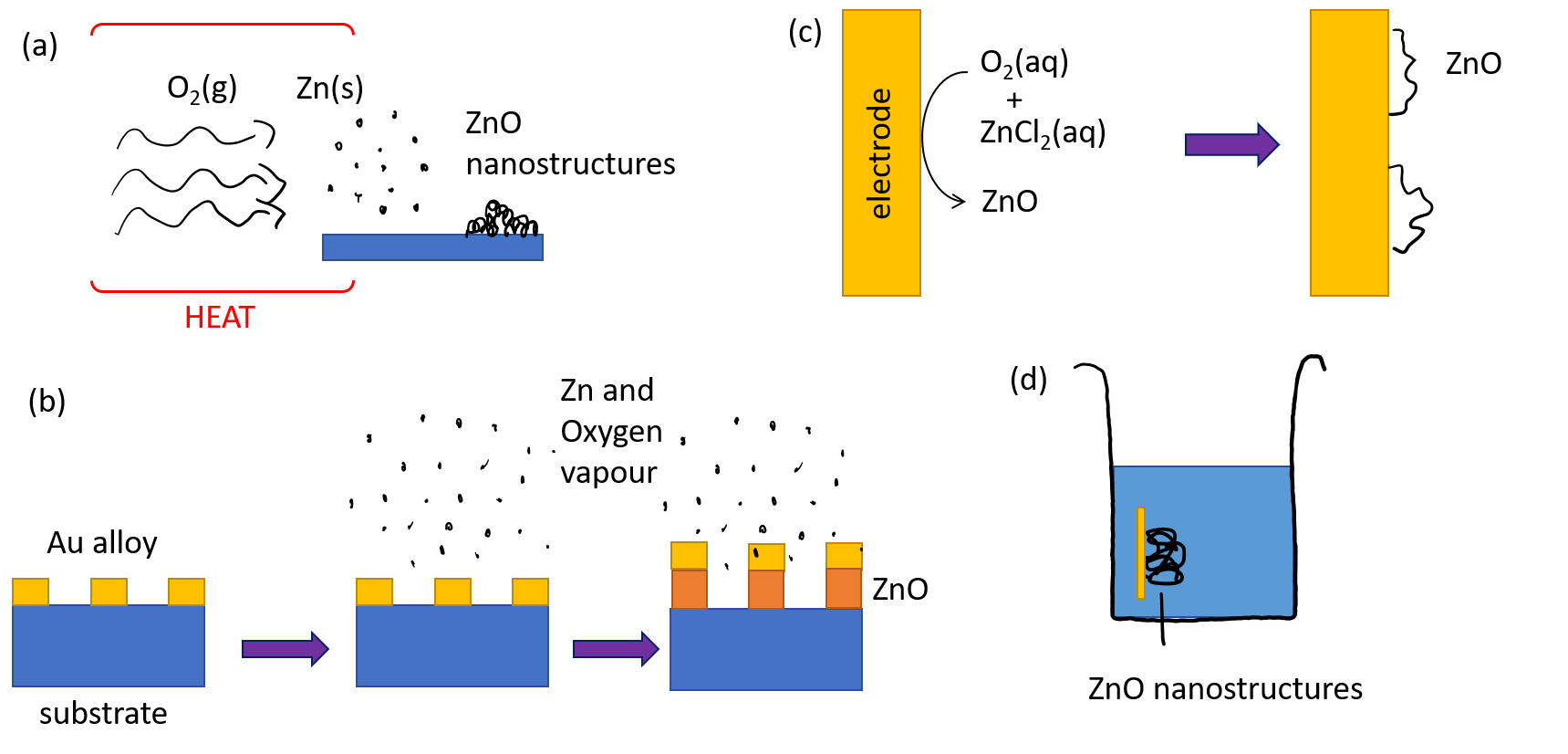 Drawing depicting schematic of four different processes to make ZnO nanostructures